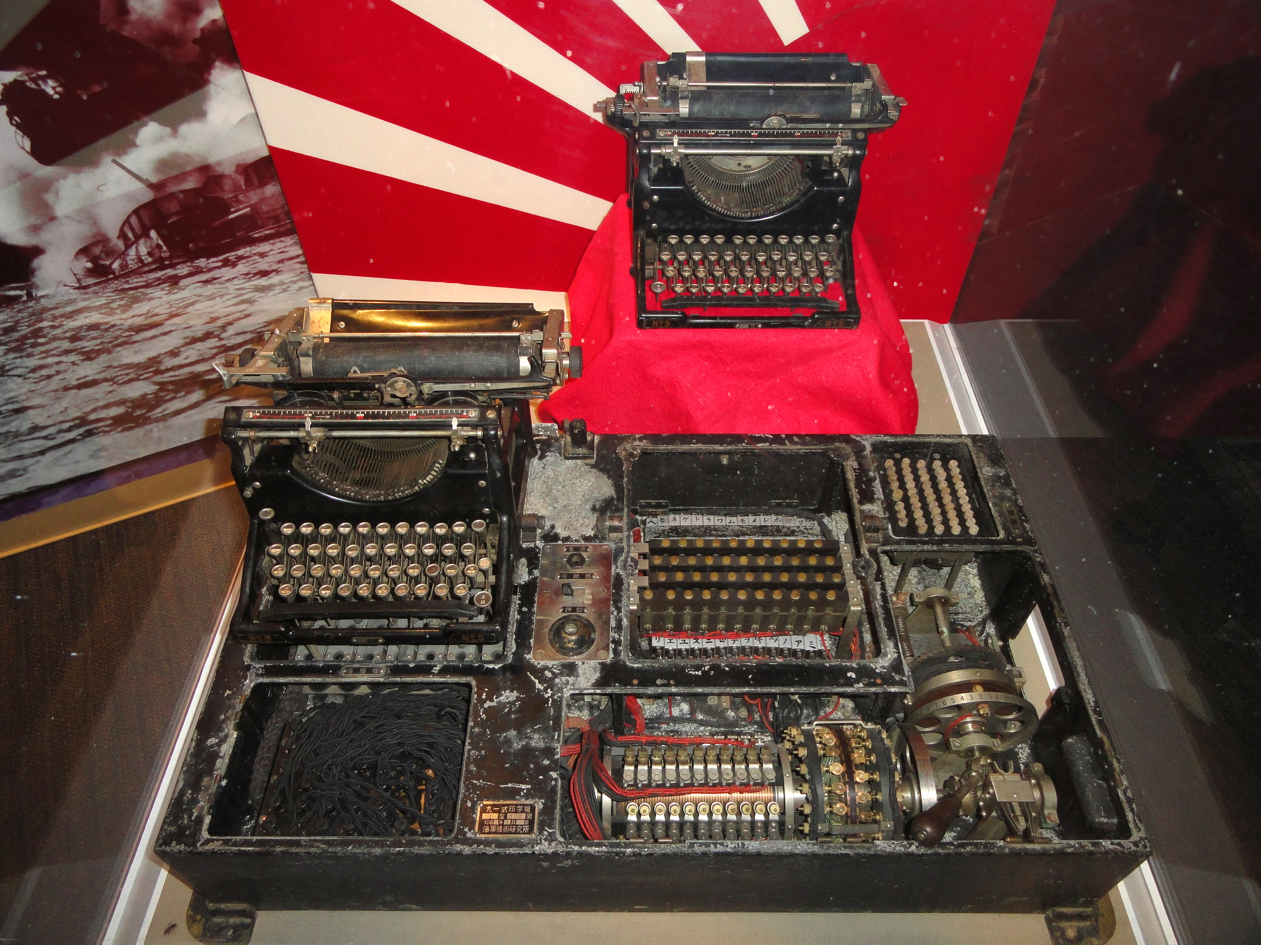 Japanese Navy RED cryptographic device captured by US Navy. Exhibit in the National Cryptologic Museum, Fort Meade, Maryland, USA. All items in this museum are unclassified; items created by the United States Government are not subject to copyright restrictions.